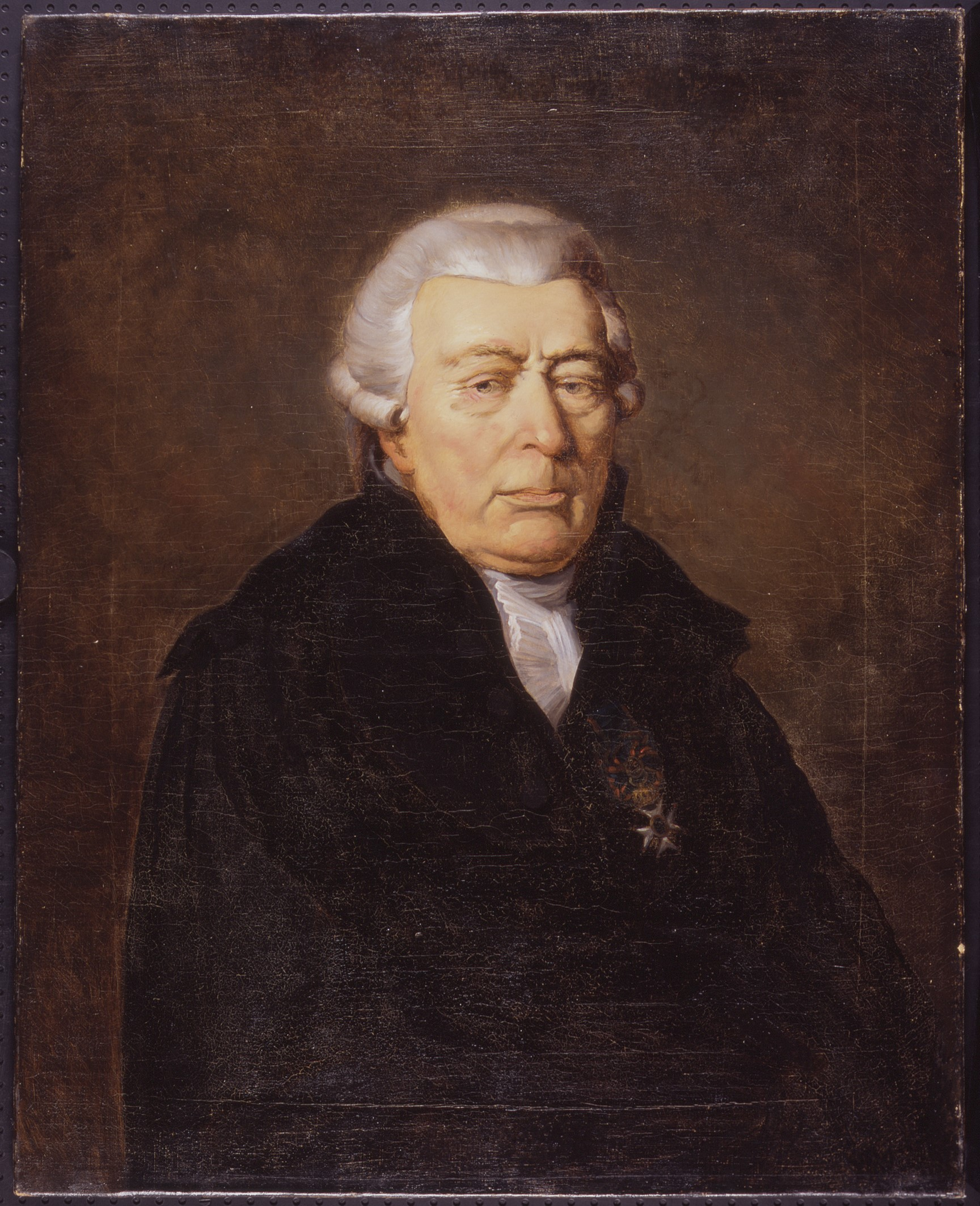 Meinard Tydeman (1741-1825), Leiden professor antiquities